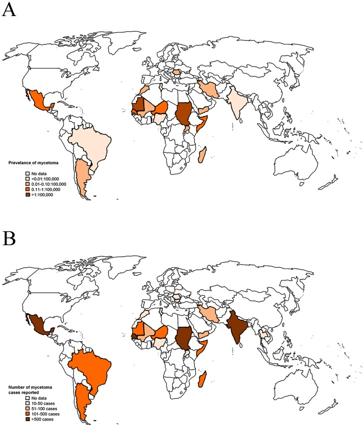 A: Average prevalence of mycetoma cases as calculated by the number of cases reported in a year in a certain country divided trough the total population of that country of that same year as reported by B: the average number of mycetoma cases reported per year per country.